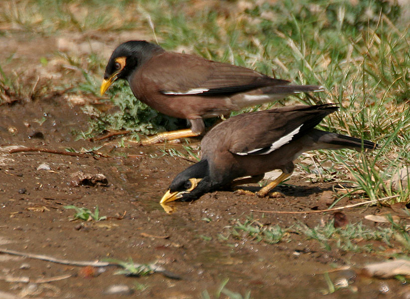 Common Myna or Indian Myna Acridotheres tristis in Parli, Maharashtra, India.